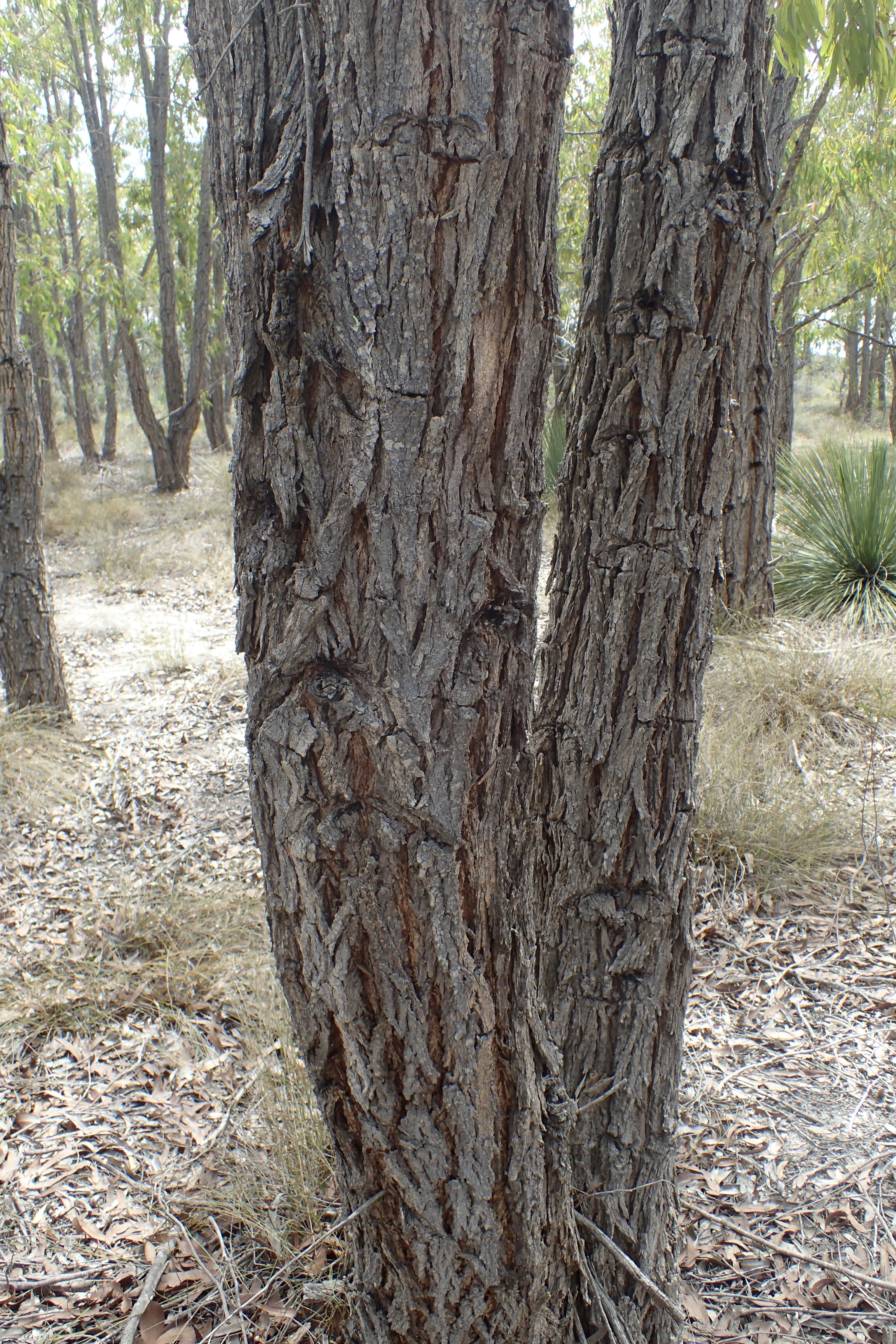 Bark of Eucalyptus patens in Helms Arboretum north of Esperance, Western Australia